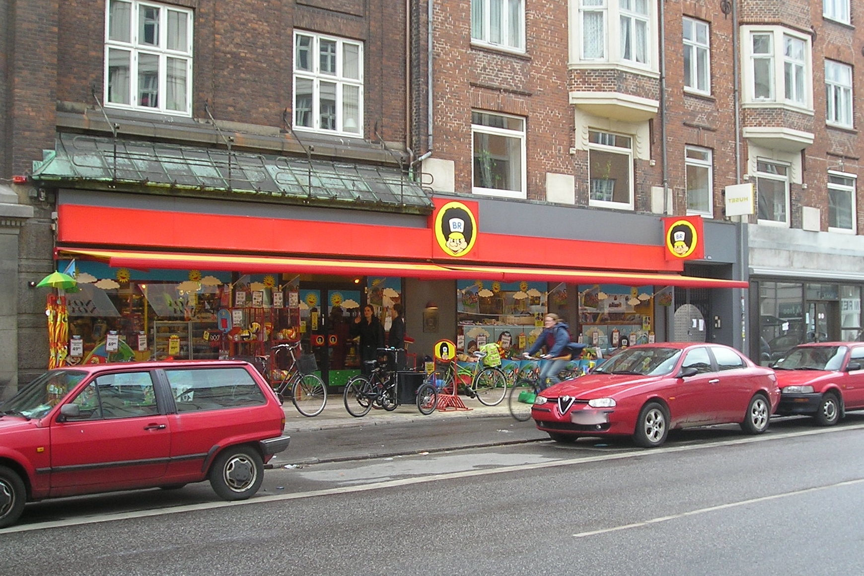 The danish Toy Store company Fætter BR's store on Østerbrogade in Copenhagen.